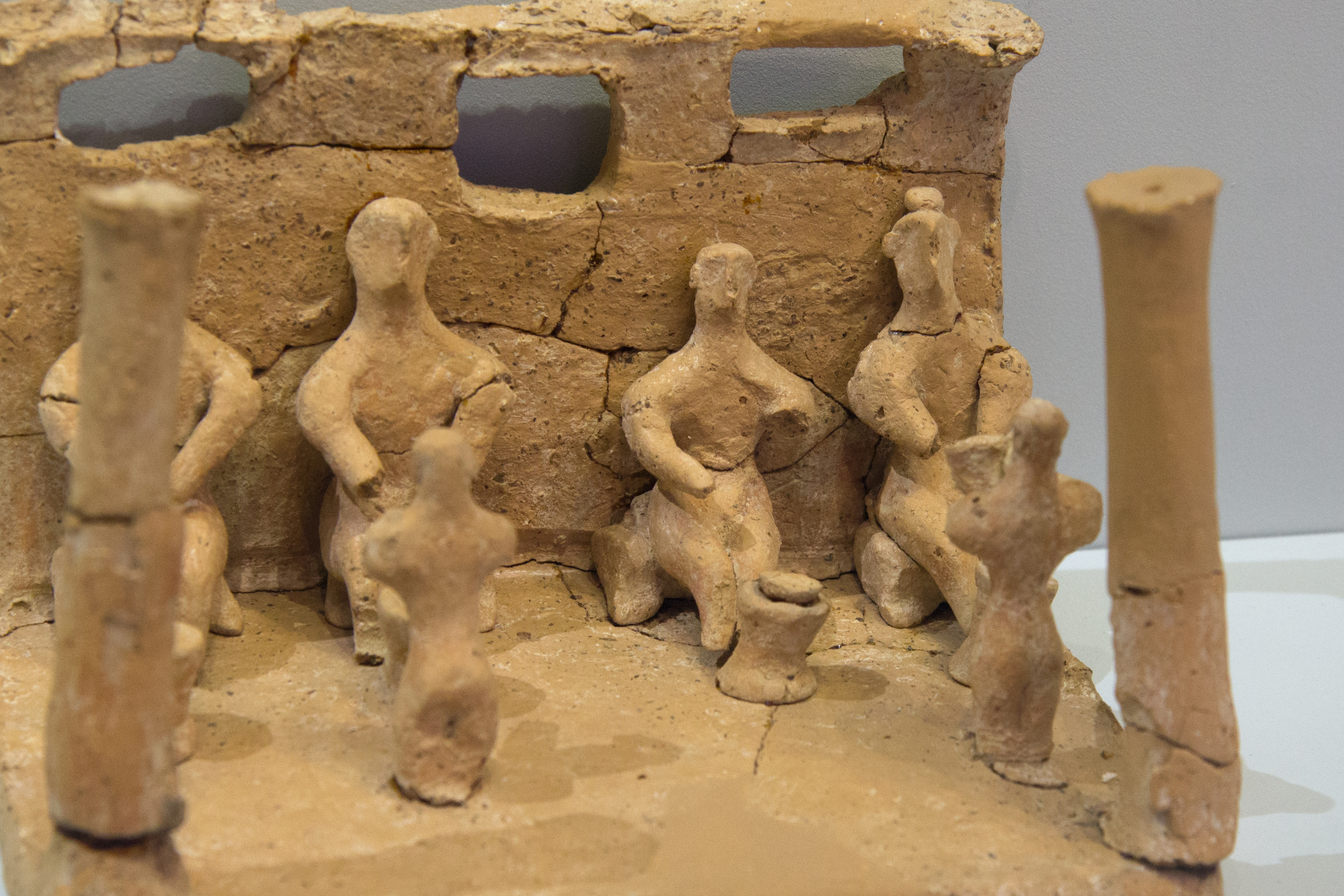 Clay model of a two-columned stoa and a wall with windows. Four figures are shown seated on low seats in the interior and receiving offerings on alatrs, made by two smaller standing figures holding vessels. The most likely interpretation is that the model depicts an ancestor-cult scene relating to those buried inside the tomb. Kamilari, 1500-1450 BC. Archaeological Museum of Heraklion, case 98, no. 13074.